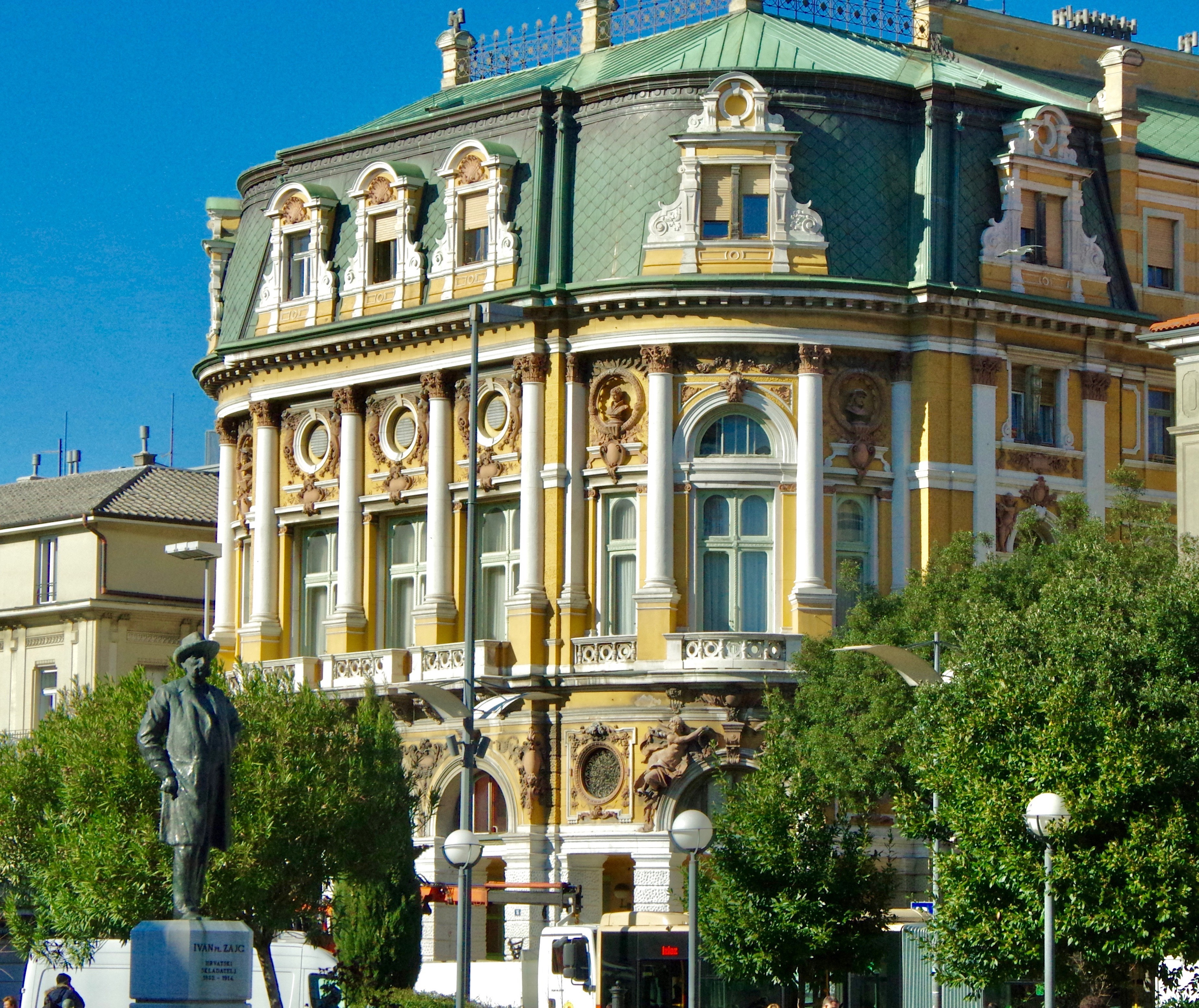 Palace Modello in Rijeka